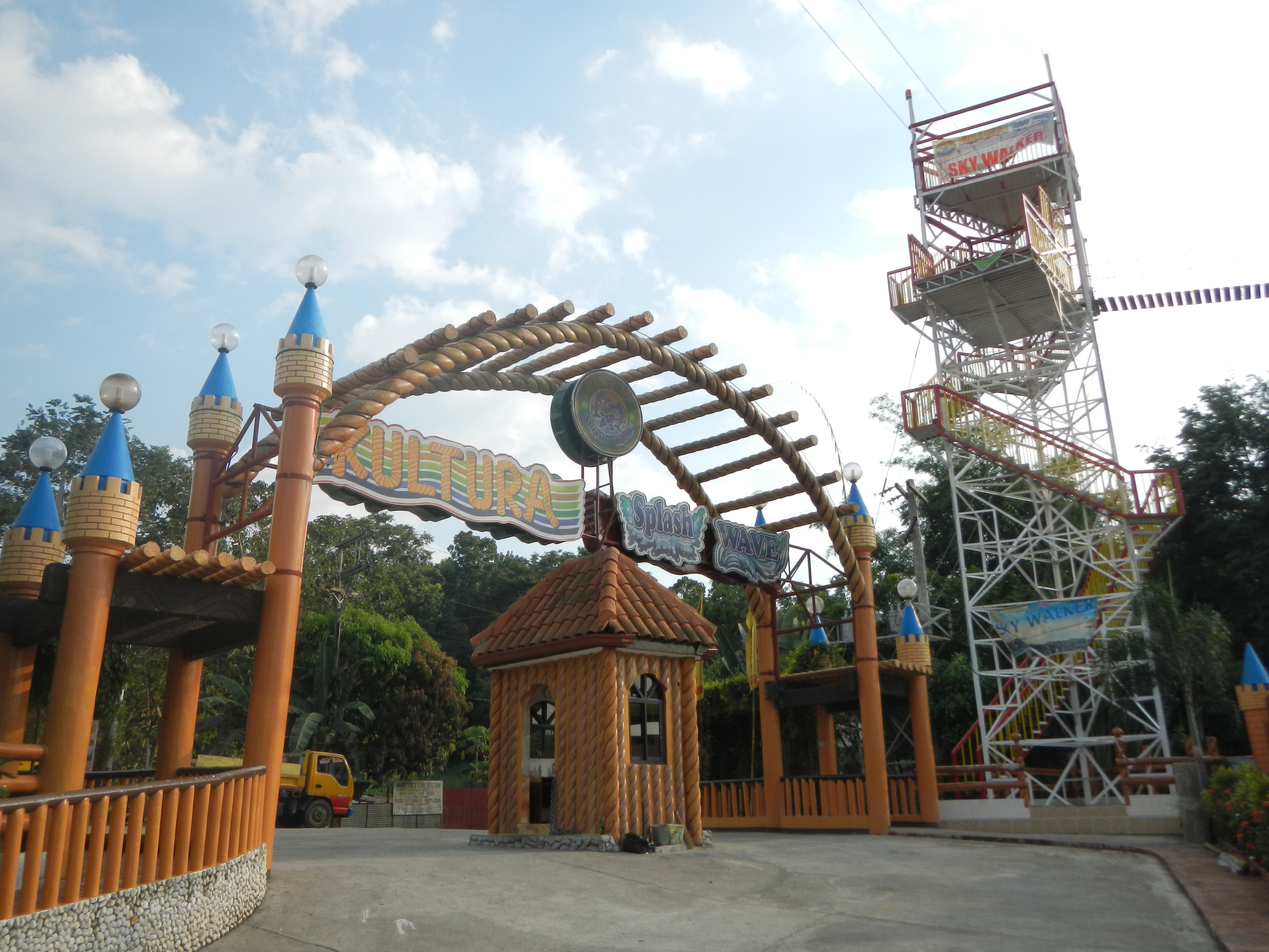 Kultura Resort, splash waves and zip line, Pugo, La Union[1]